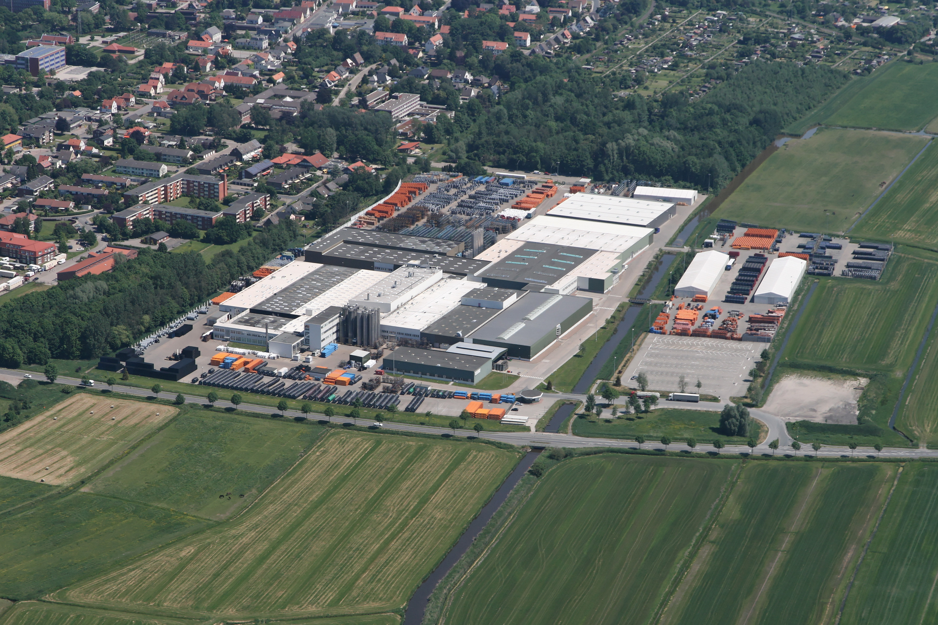 An aerial photograph of Brake (Unterweser) / Rehau site.